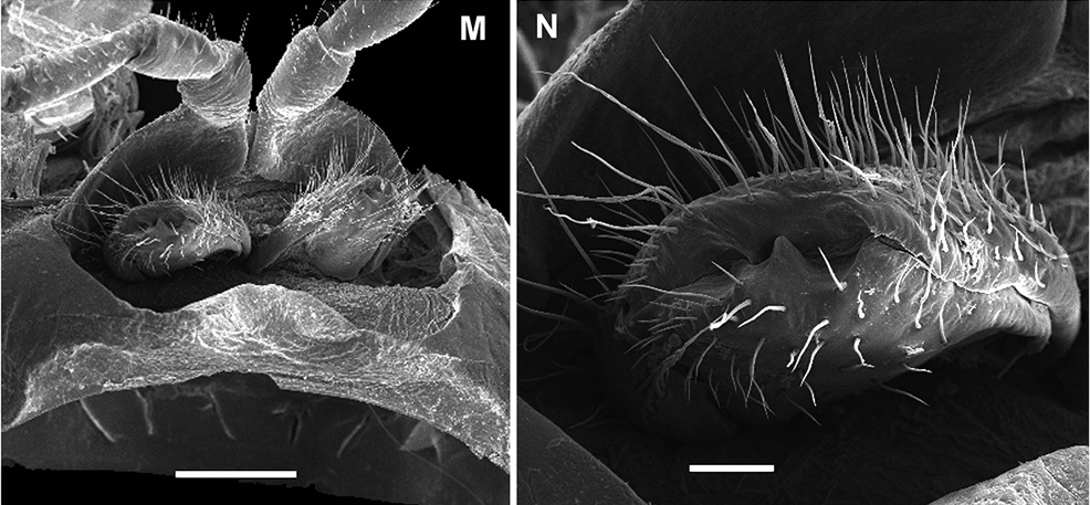 Eviulisoma taitaorum female. M: both vulvae in situ, ventrocaudal view. N: right vulva, ventrocaudal view. Scale bars: 0.5 mm (M), 0.1 mm (N).